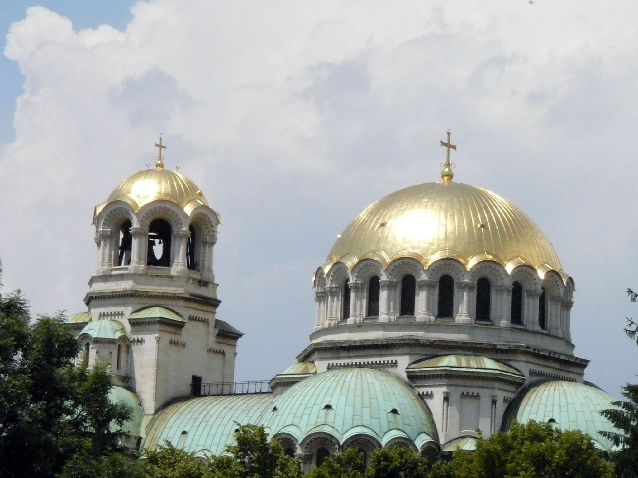 Alexander Nevsky Cathedral in Sofia, Bulgaria